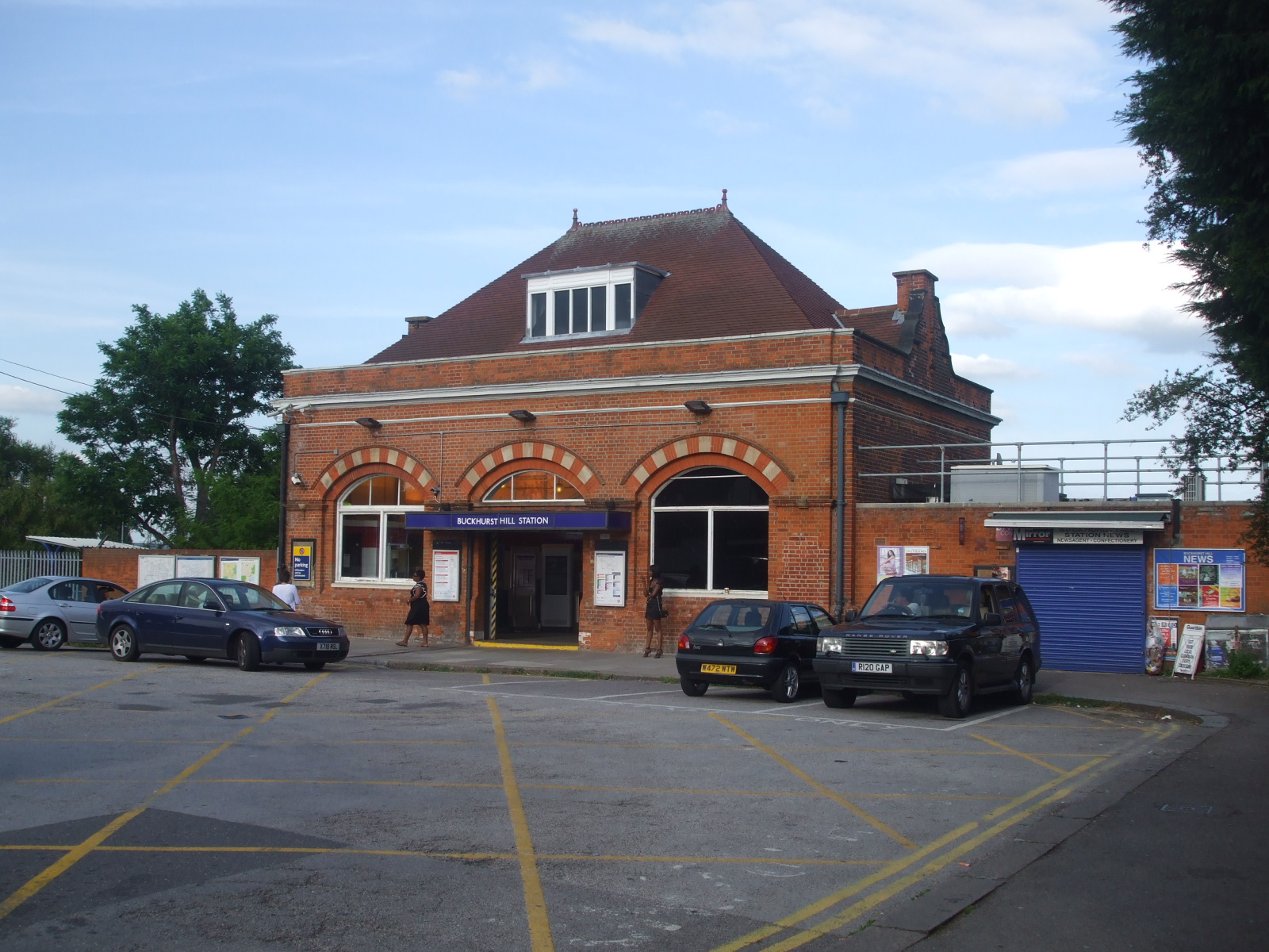 Buckhurst Hill tube station building